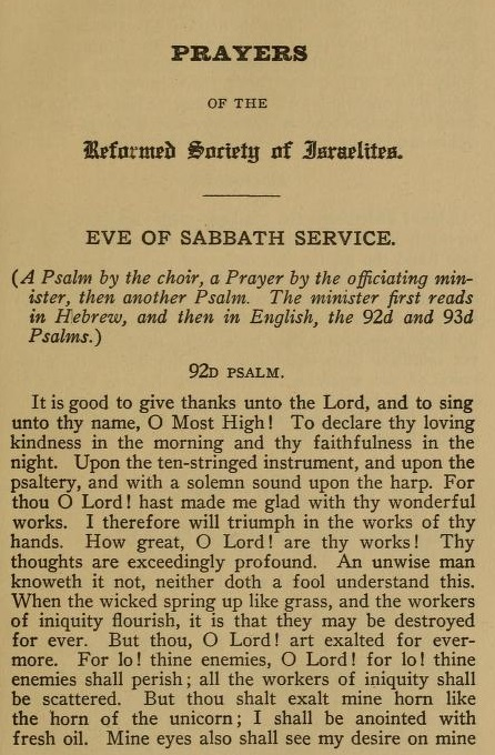 A segment from the prayerbook The Sabbath service and miscellaneous prayers, adopted by the Reformed society of Israelites.